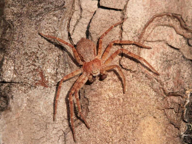 Philodromus fuscomarginatus male, location: The Netherlands - Ommen - Landgoed Junne - De Heetdelle